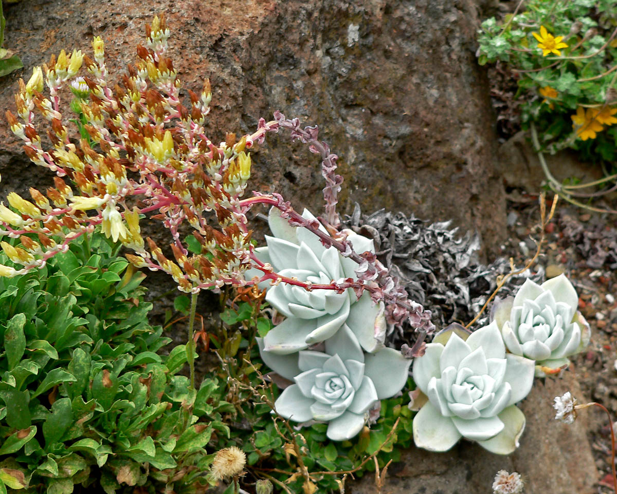 Photo of Dudleya farinosa at the Regional Parks Botanic Garden